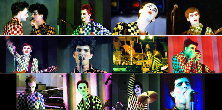 Split Enz at Nambassa. This pic was taken at the 1979 Nambassa festival New Zealand.